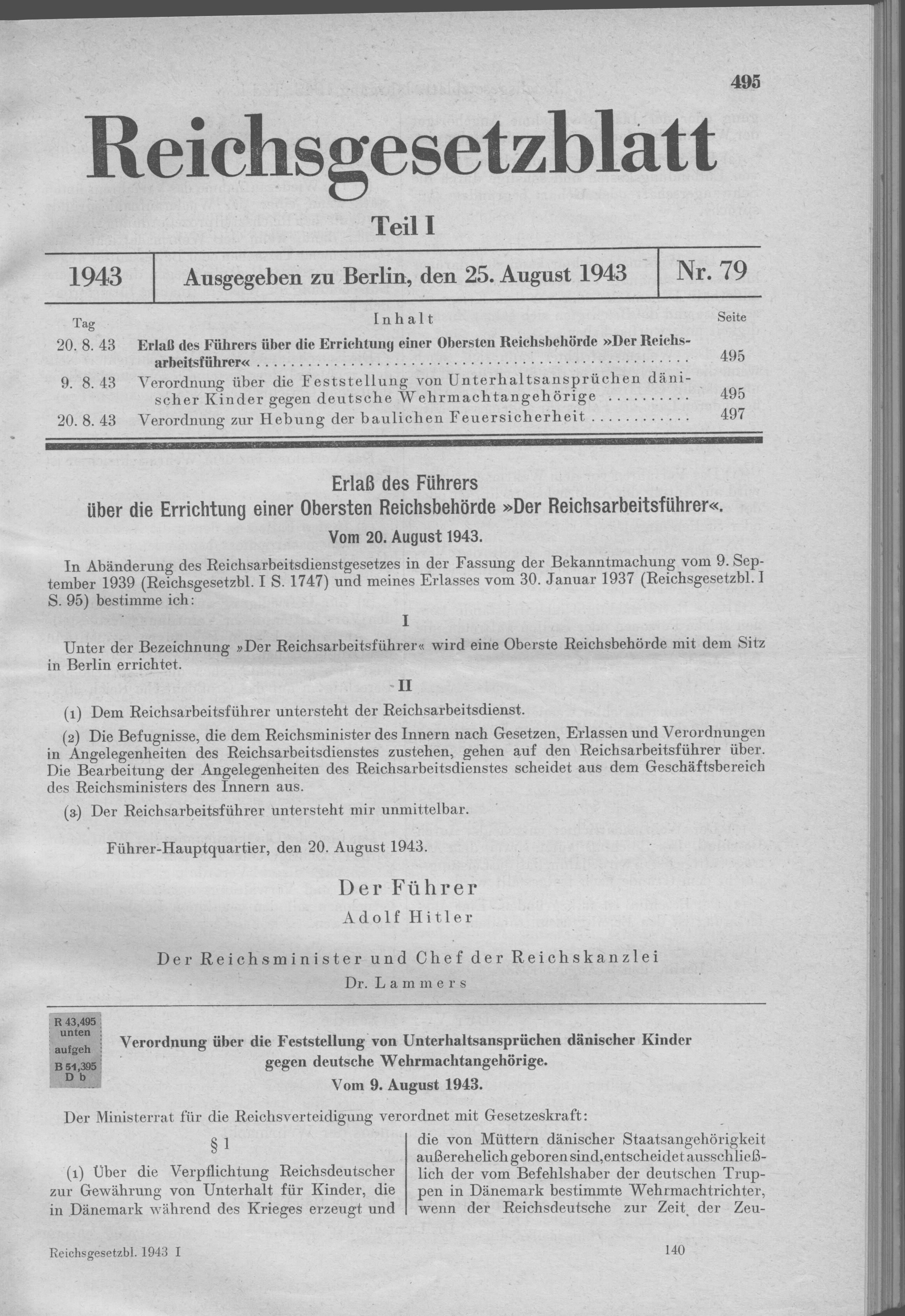 Scan from the Imperial Law Gazette of Germany, 1943, part 1